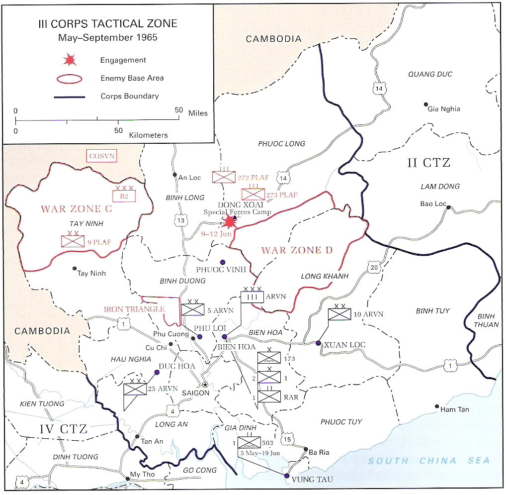 Map of III Corps Tactical Zone, South Vietnam, May to September 1965